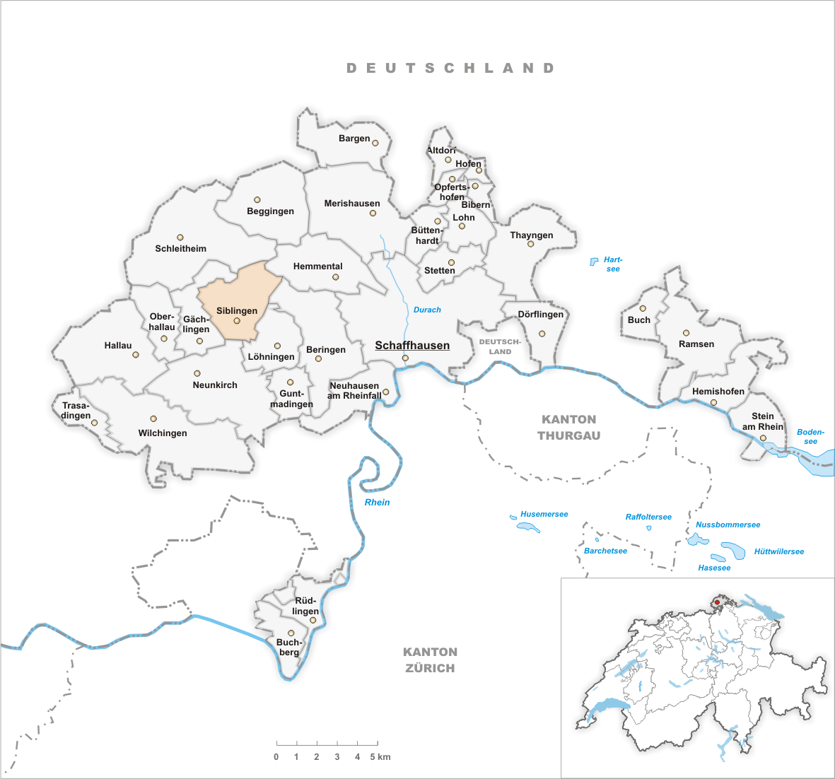 Municipality Siblingen